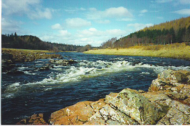 River Dee at Potarch. Looking upstream from beside Potarch Bridge.